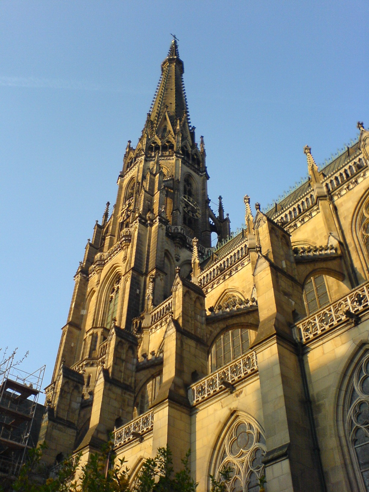 Austria, Linz, New Cathedral